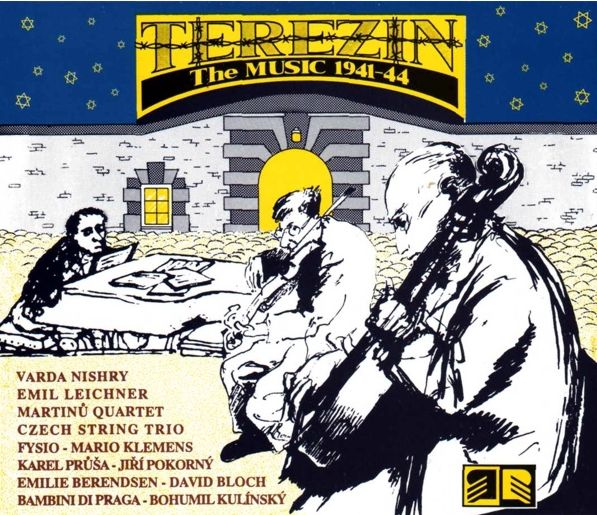 The front cover of the 2-CD set: Terezín: The Music 1941–44